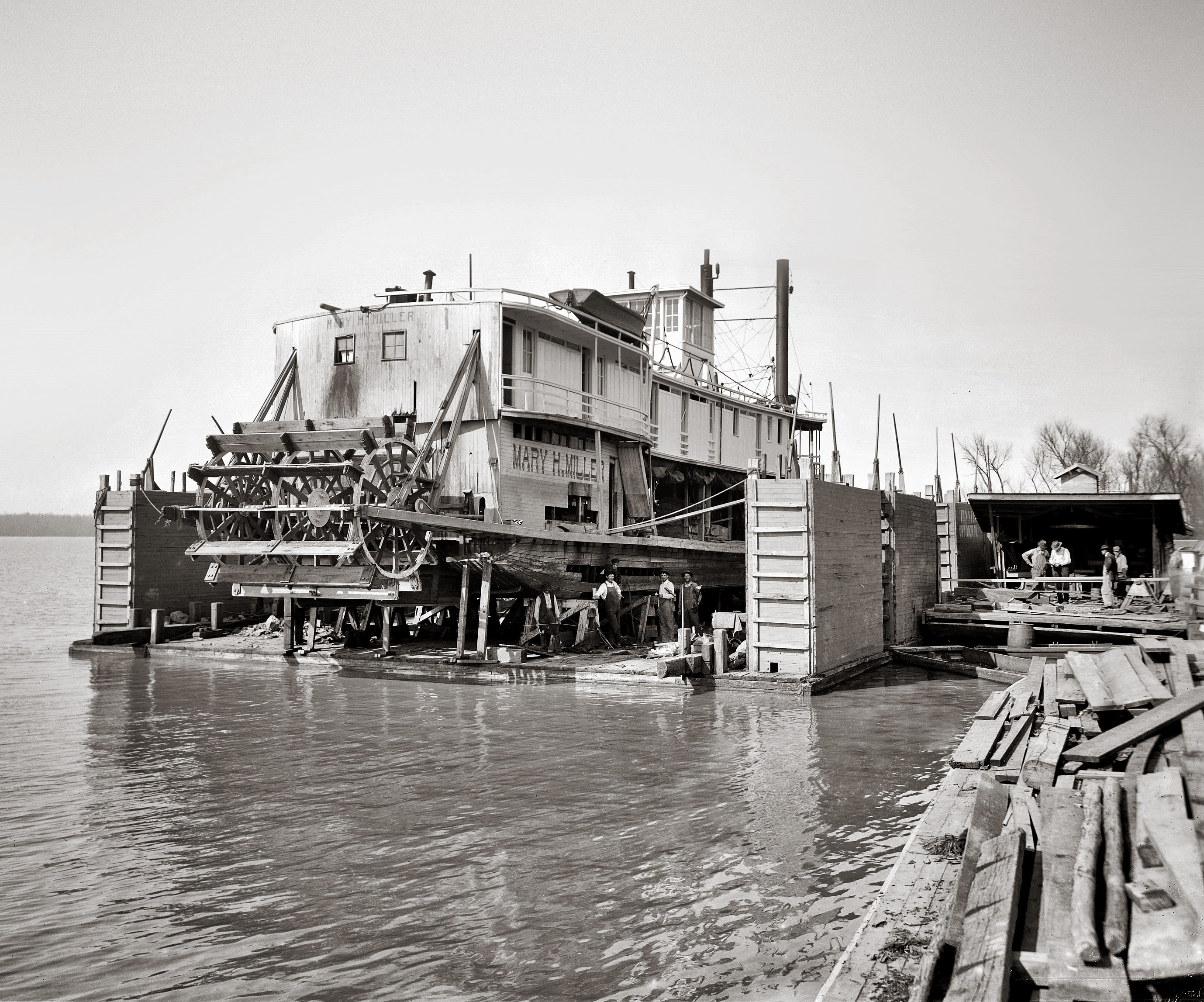 Mary H. Miller on a floating dry dock in Vicksburg, Mississippi.